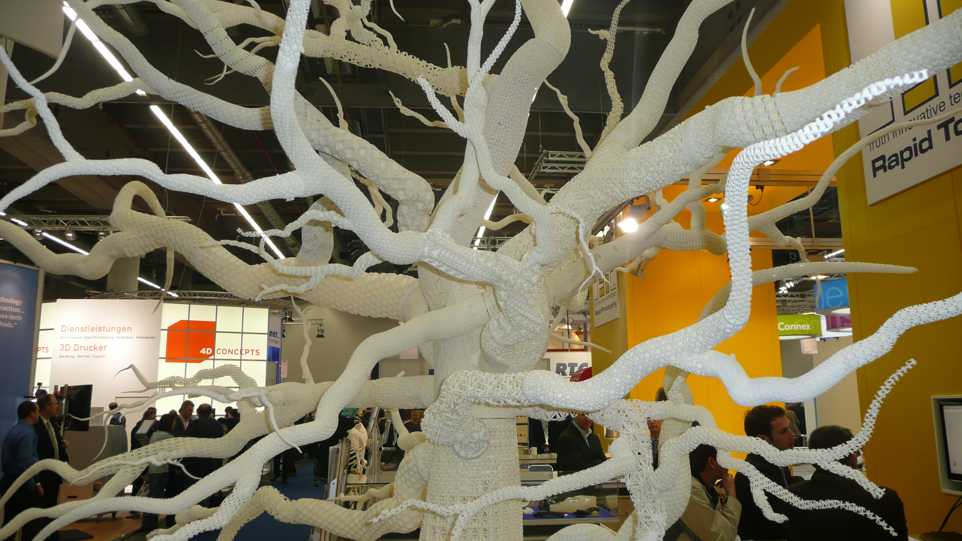 World Fair EuroMold 2009 in Frankfurt